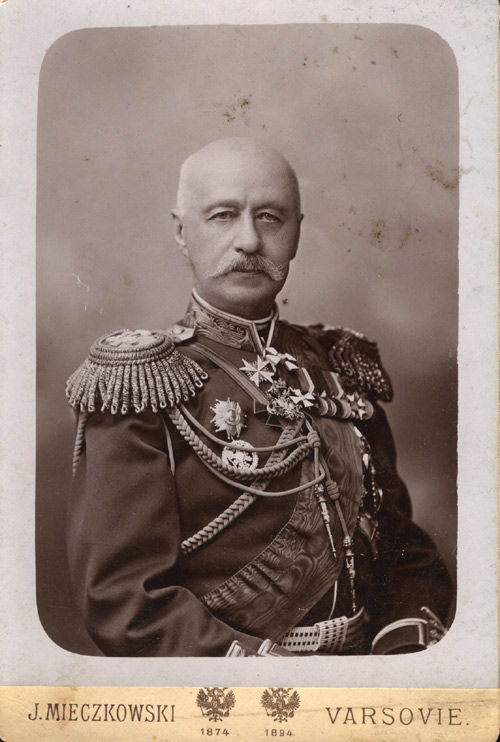 Prince Alexander Konstantinovich Imeretinsky (1837-1900). Postcard